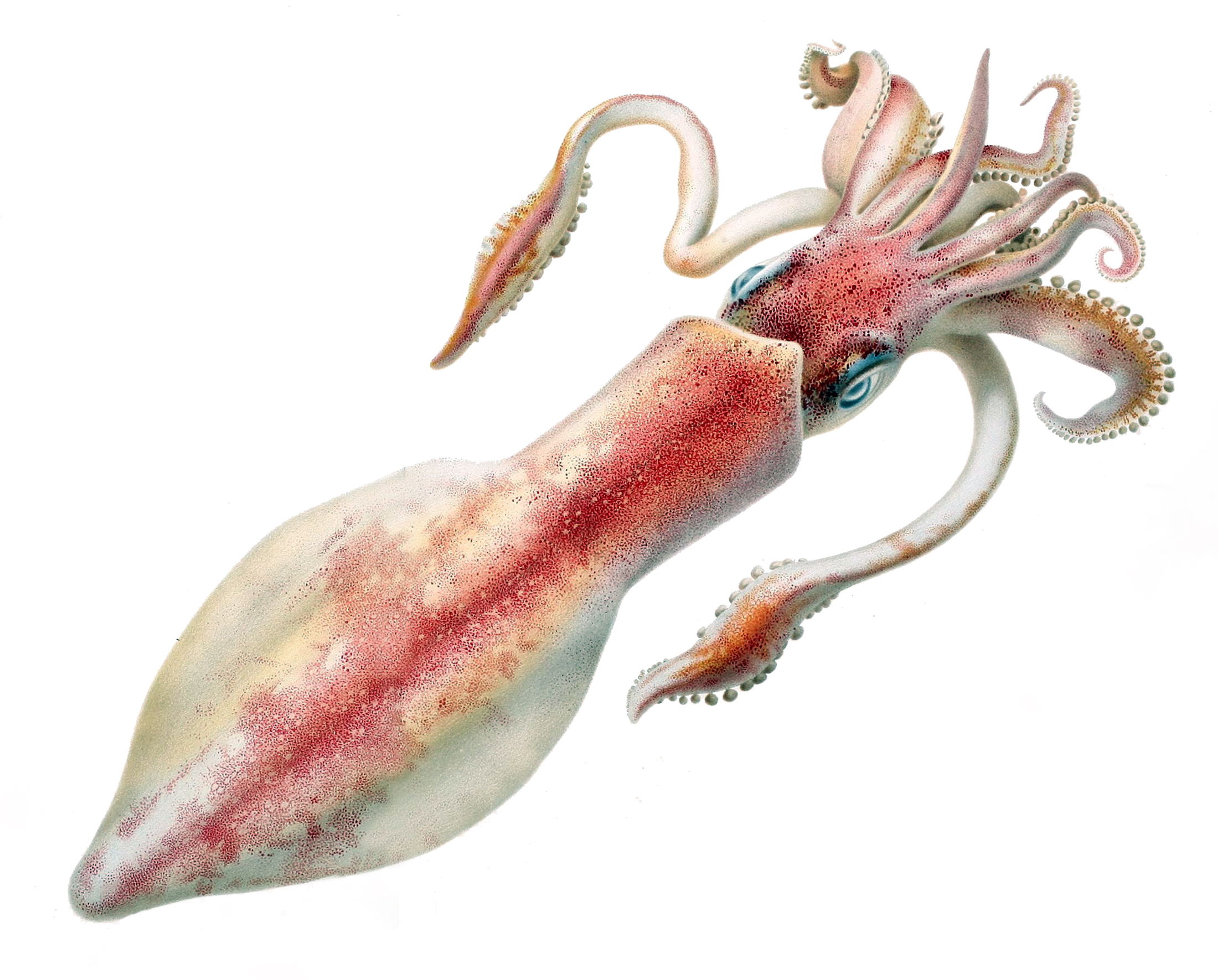 Restored lithograph of Loligo forbesii